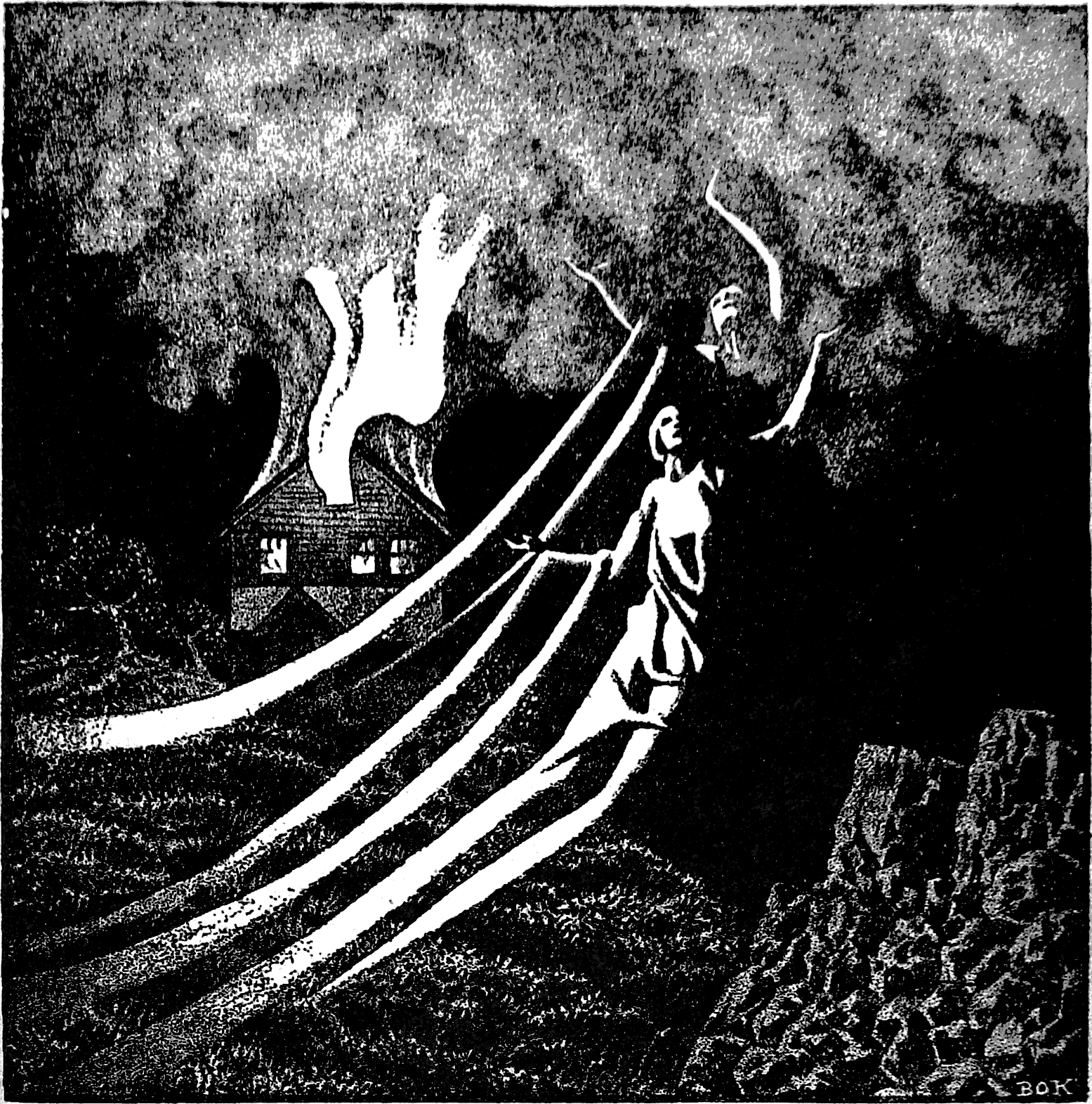 Main illustration for the short story "Half Haunted." Internal Illustration from the pulp magazine Weird Tales (September 1941, vol. 36, no. 1).